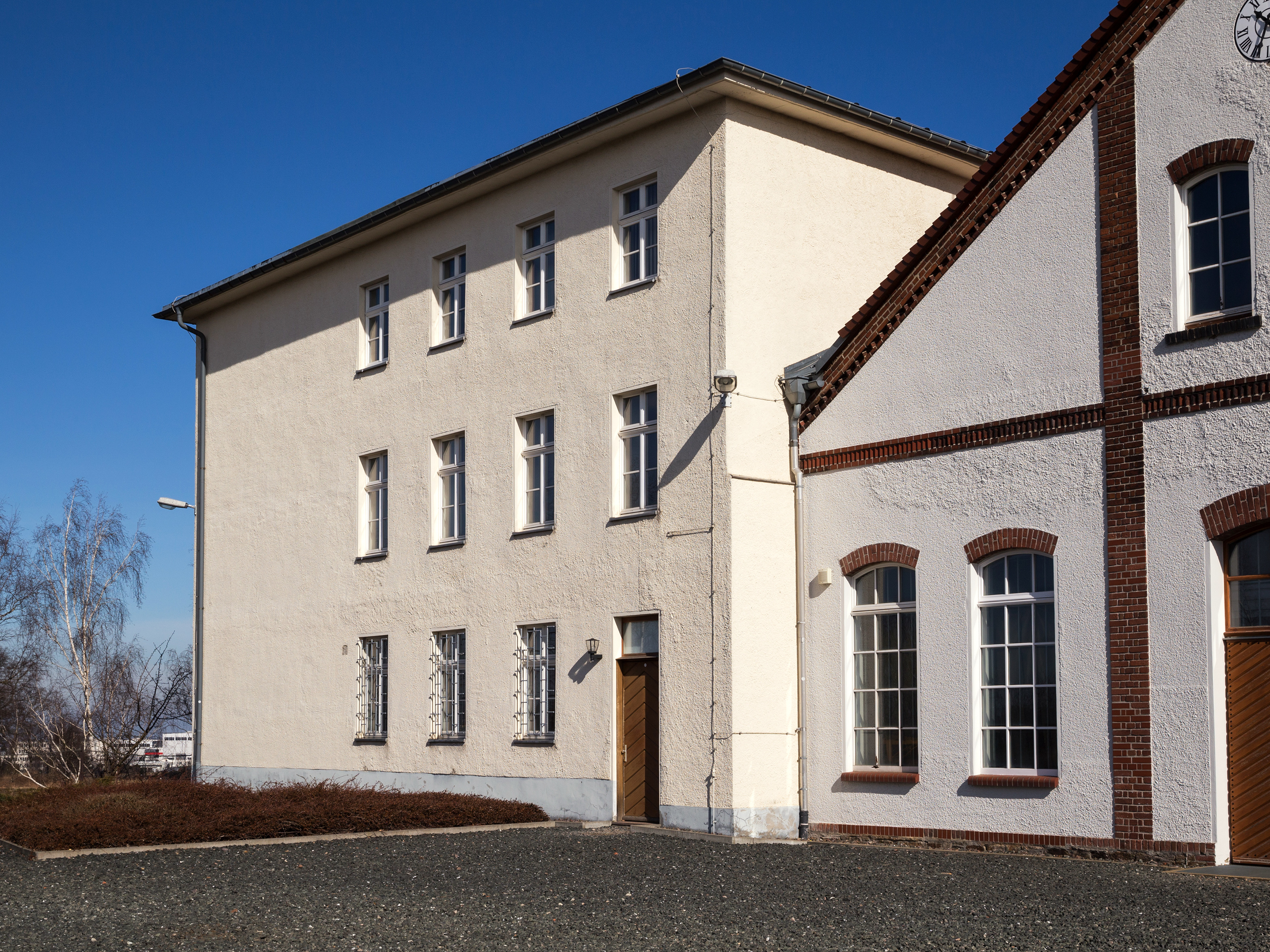 Freiberg, TU Bergakademie Freiberg, Reiche Zeche, Karl-Neubert-Bau (building named after Karl Neubert)